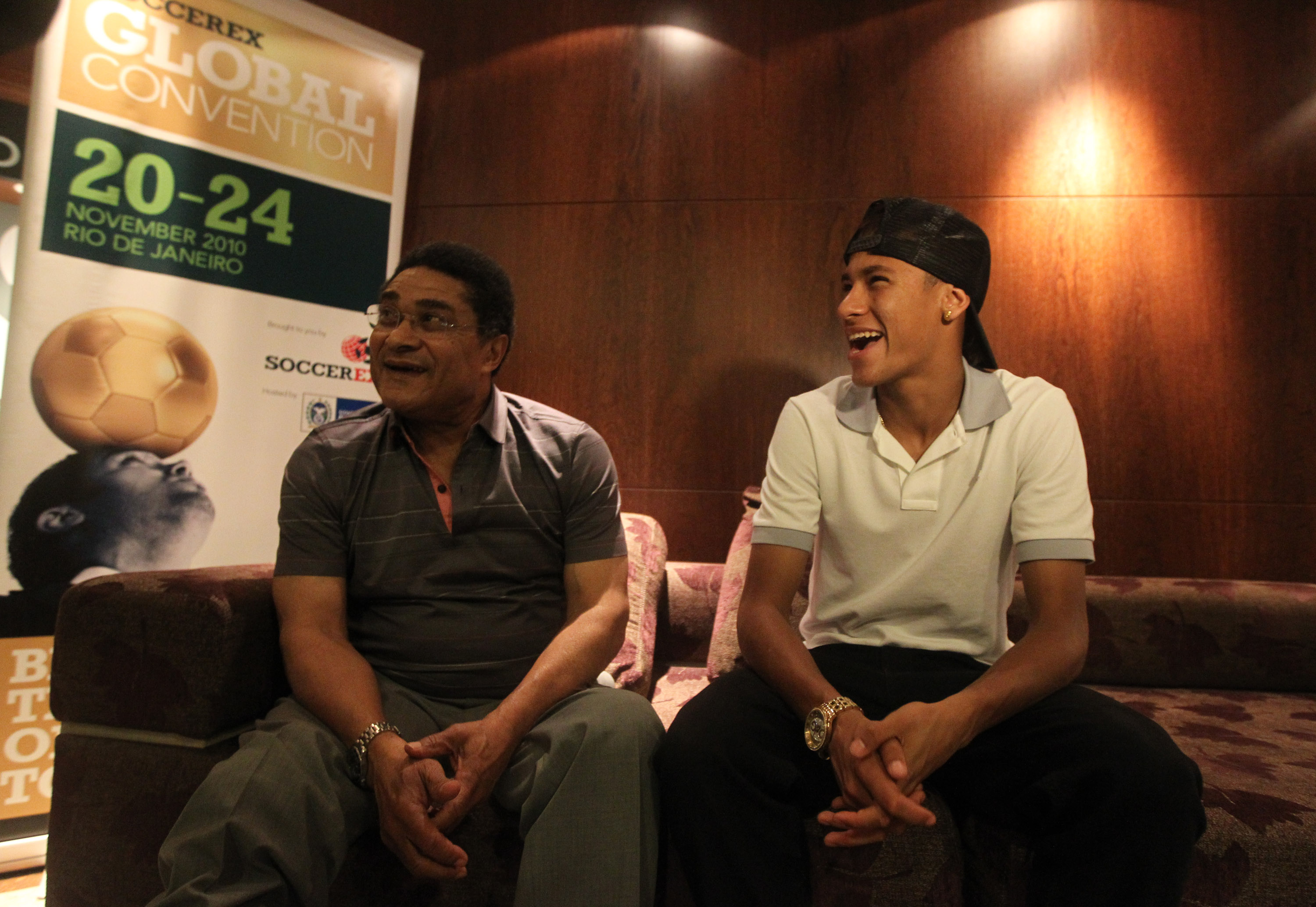 Ex-Portugal Legend Eusébio and Brazilian Superstar Neymar